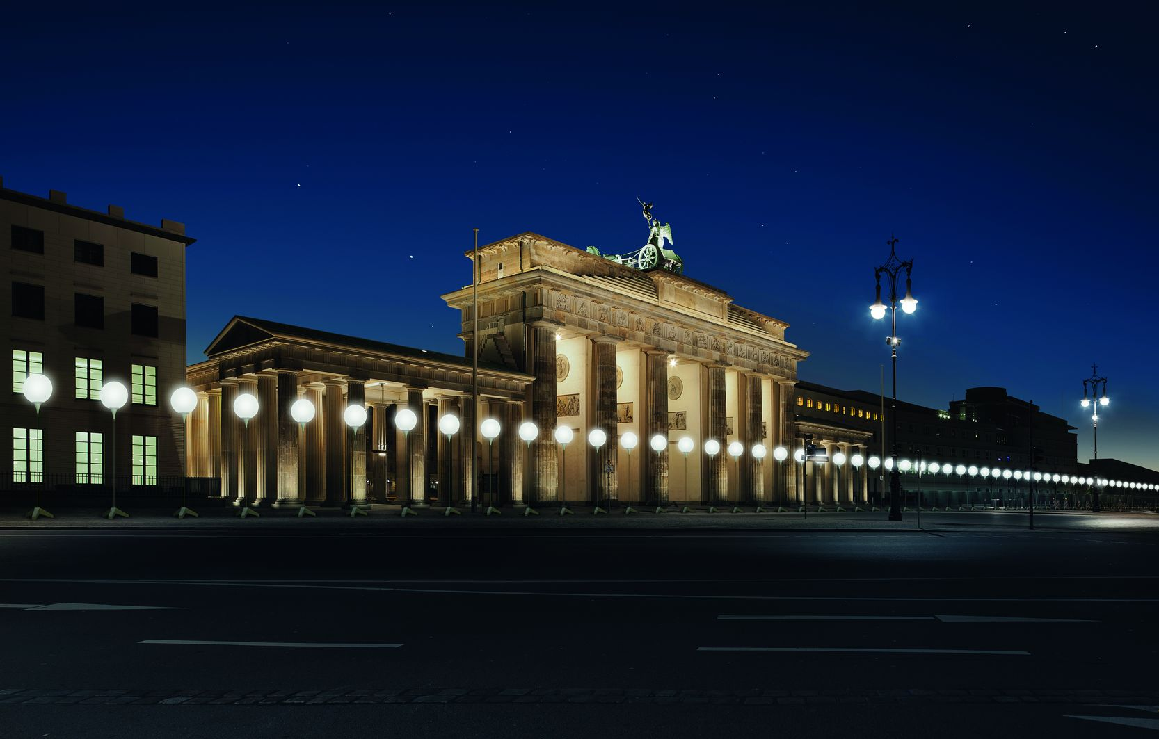 visualization of the Lichtgrenze art installation marking the 25th anniversary of the fall of the Berlin Wall in front of the Brandenburg Gate